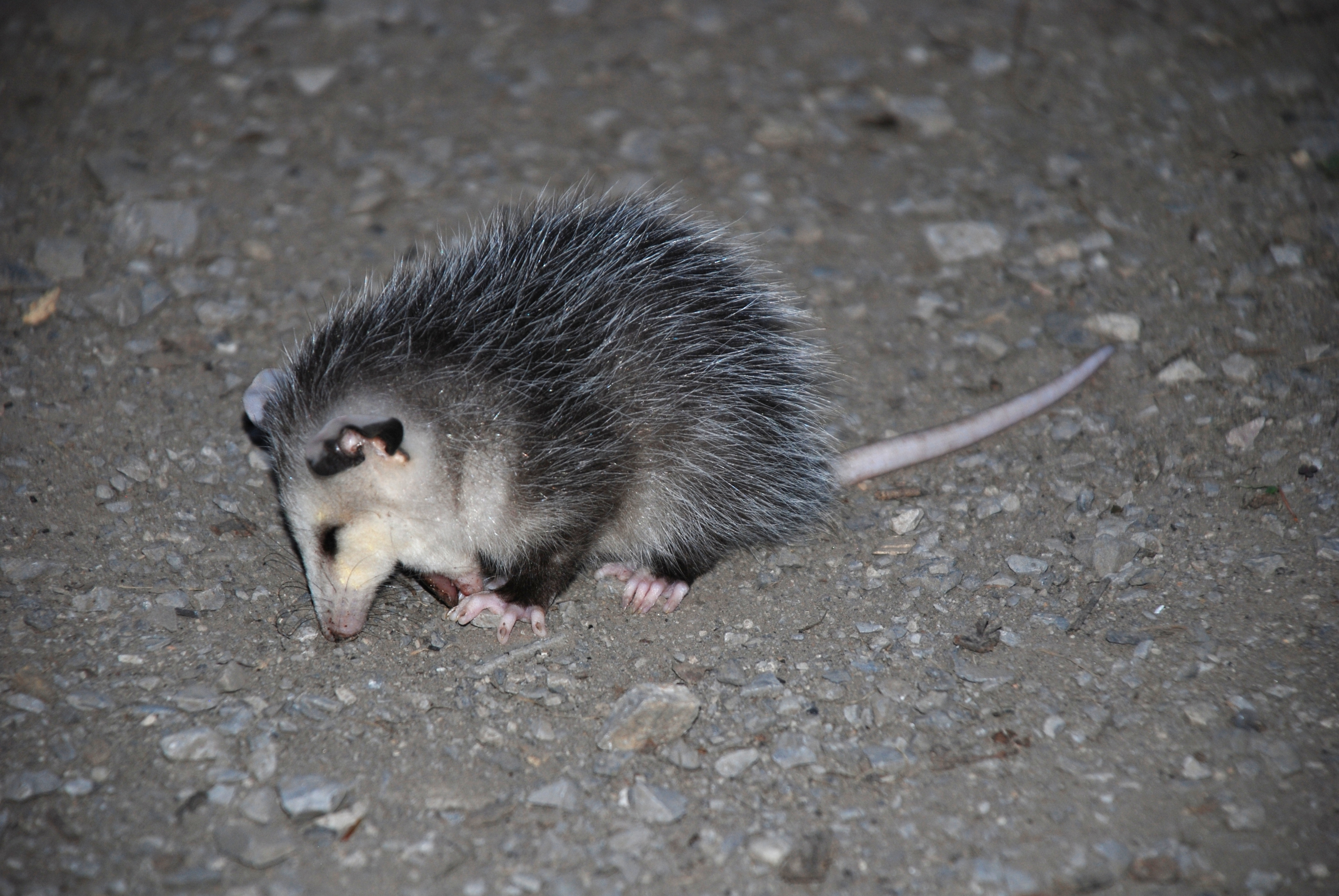 Animals of Smoke Hole Canyon: Very sick juvenile opossum "Didelphis virginiana". The animal was very weak and had his mouth stuck open with very dry inside.